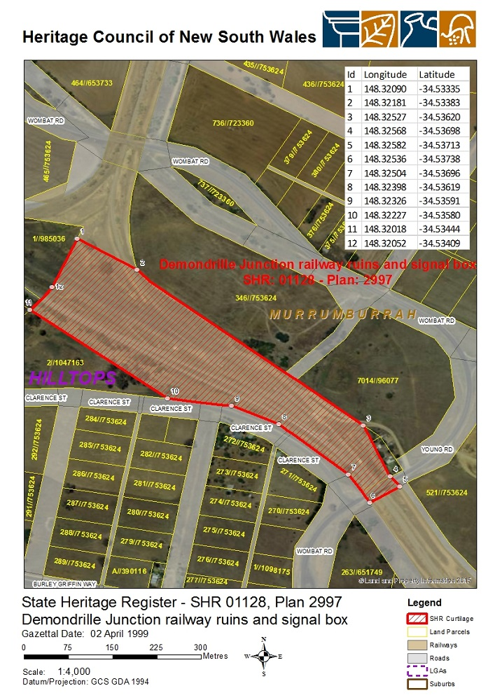 Demondrille railway station: SHR Plan No 2997